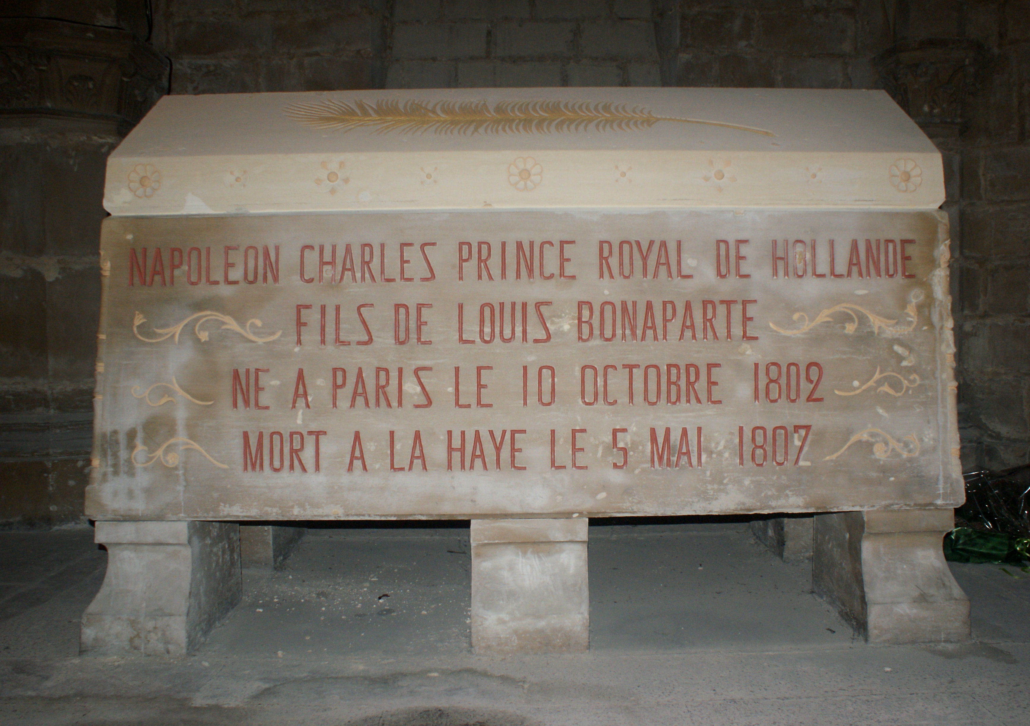 Sarcophagus Napoléon Charles Bonaparte